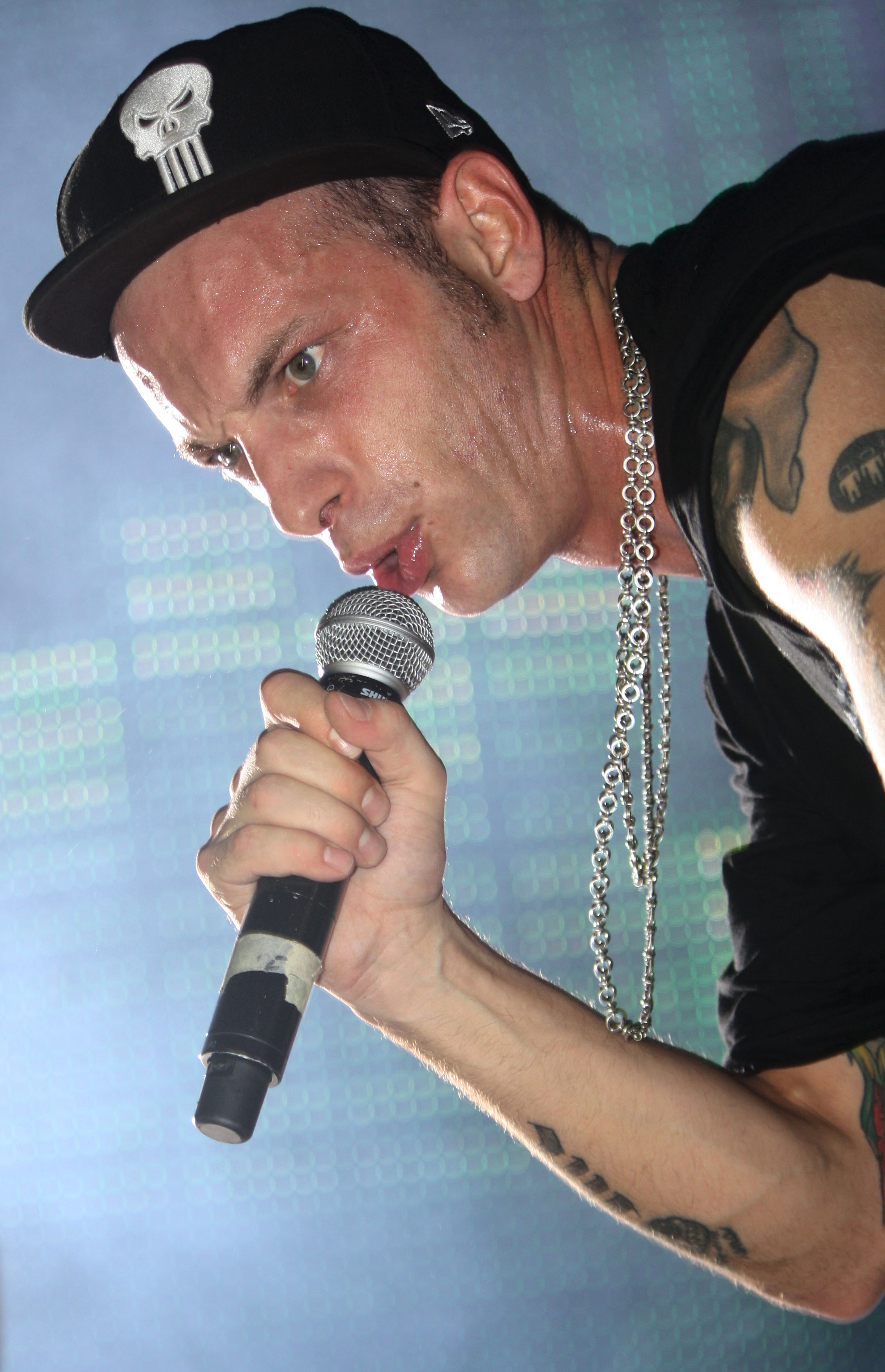 The Italian rapper Clementino during a live exhibition in Cimitile in 2013.